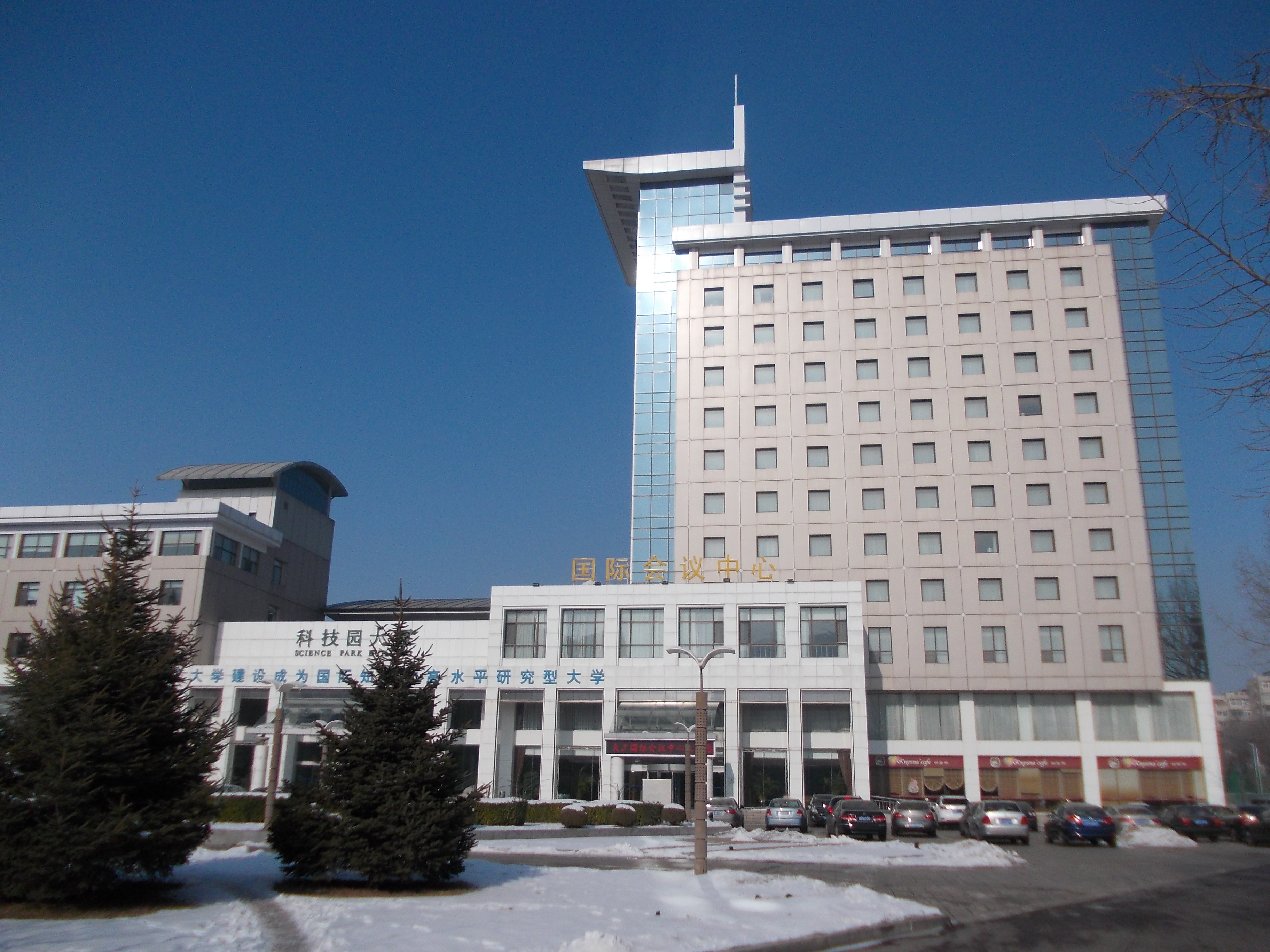 Dalian University of Technology Interntional Conference Centre